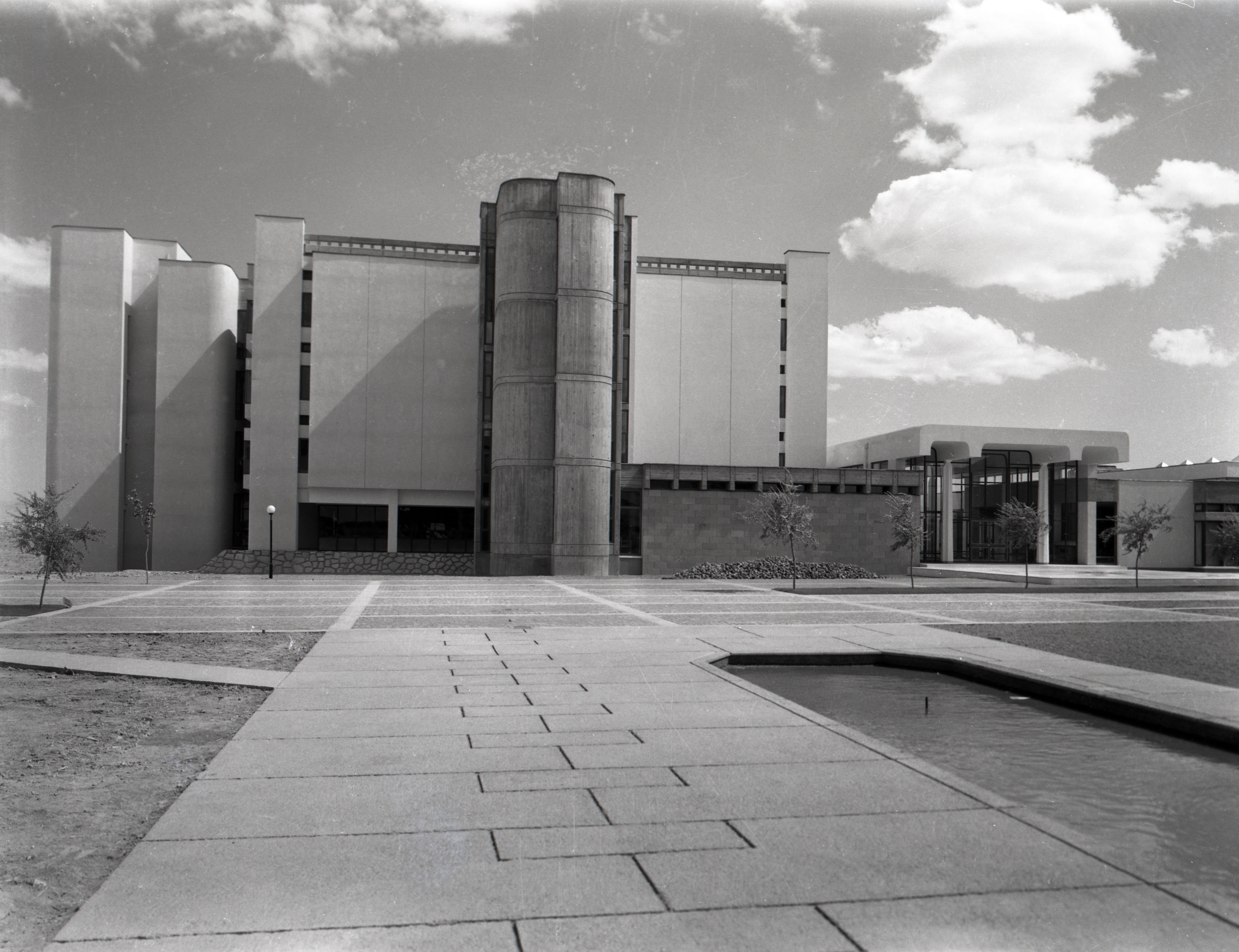 METU Library, additional building, frontal facade, 1961-1980 SALT Research, Altuğ-Behruz Çinici Archive ODTÜ Kütüphanesi, ek bina, ön cephe, 1961-1980 SALT Araştırma, Altuğ-Behruz Çinici Arşivi